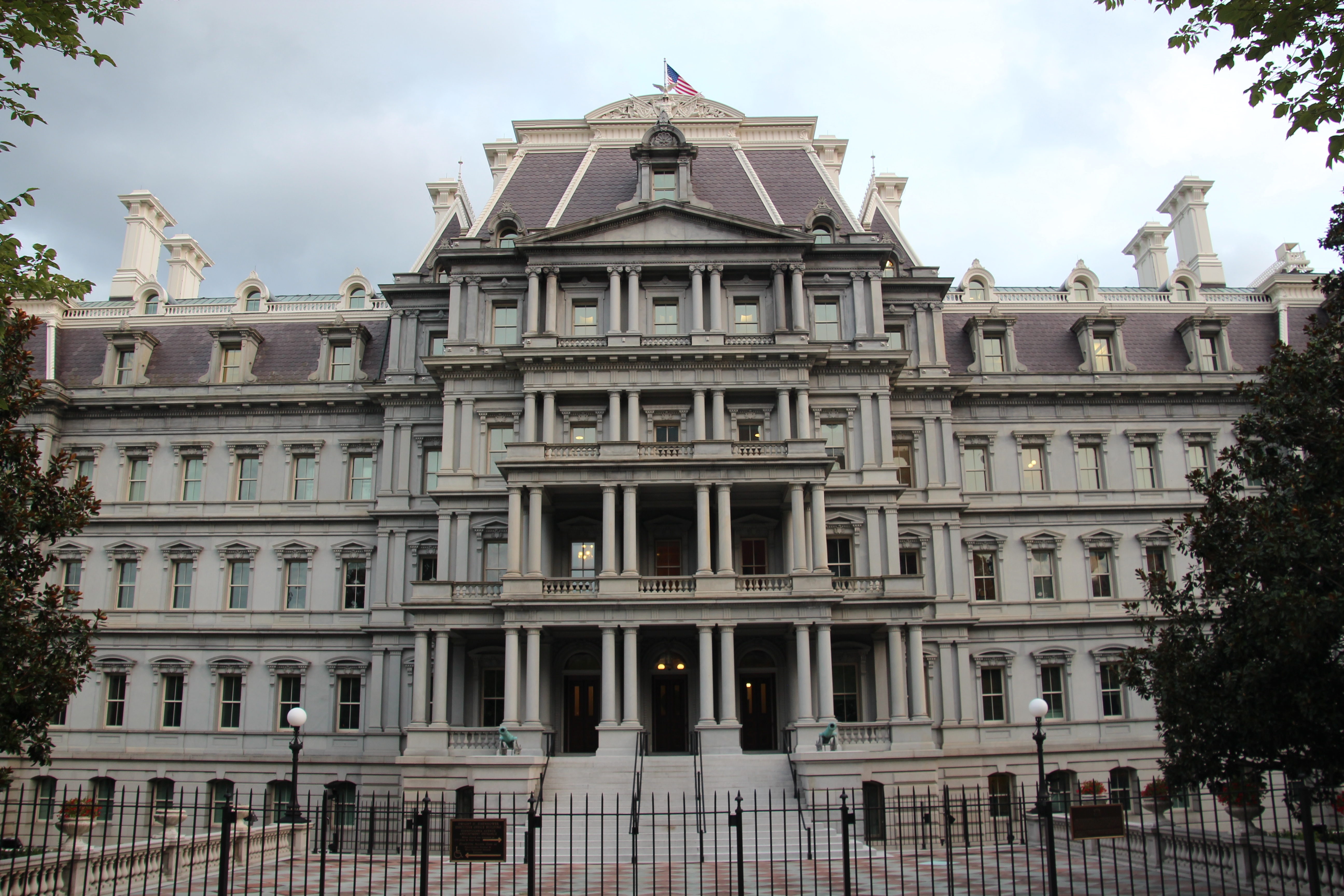 Front view of Eisenhower Executive Office Building